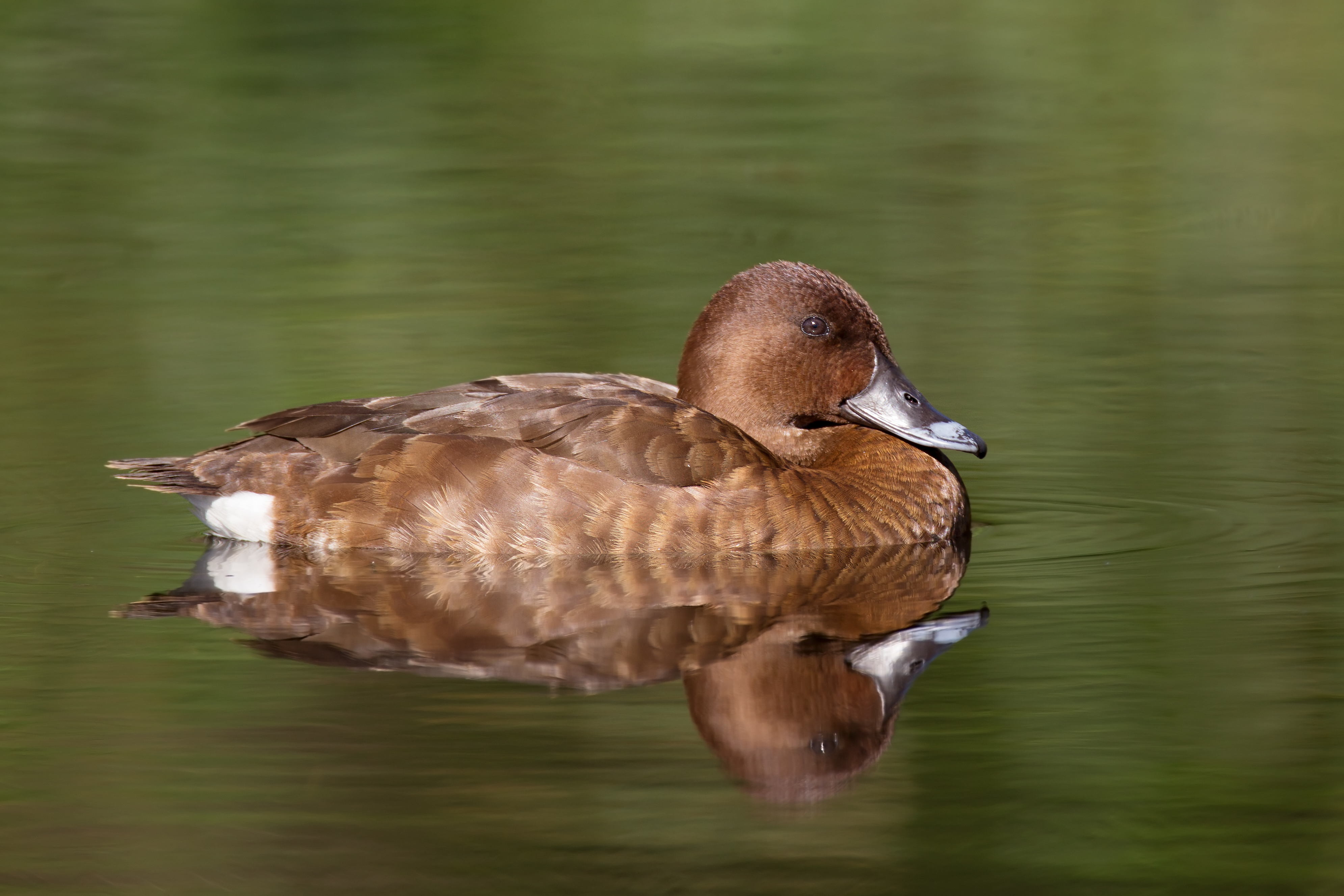 Hardhead (Aythya australis) female, Hurstville Golf Course, New South Wales, Australia